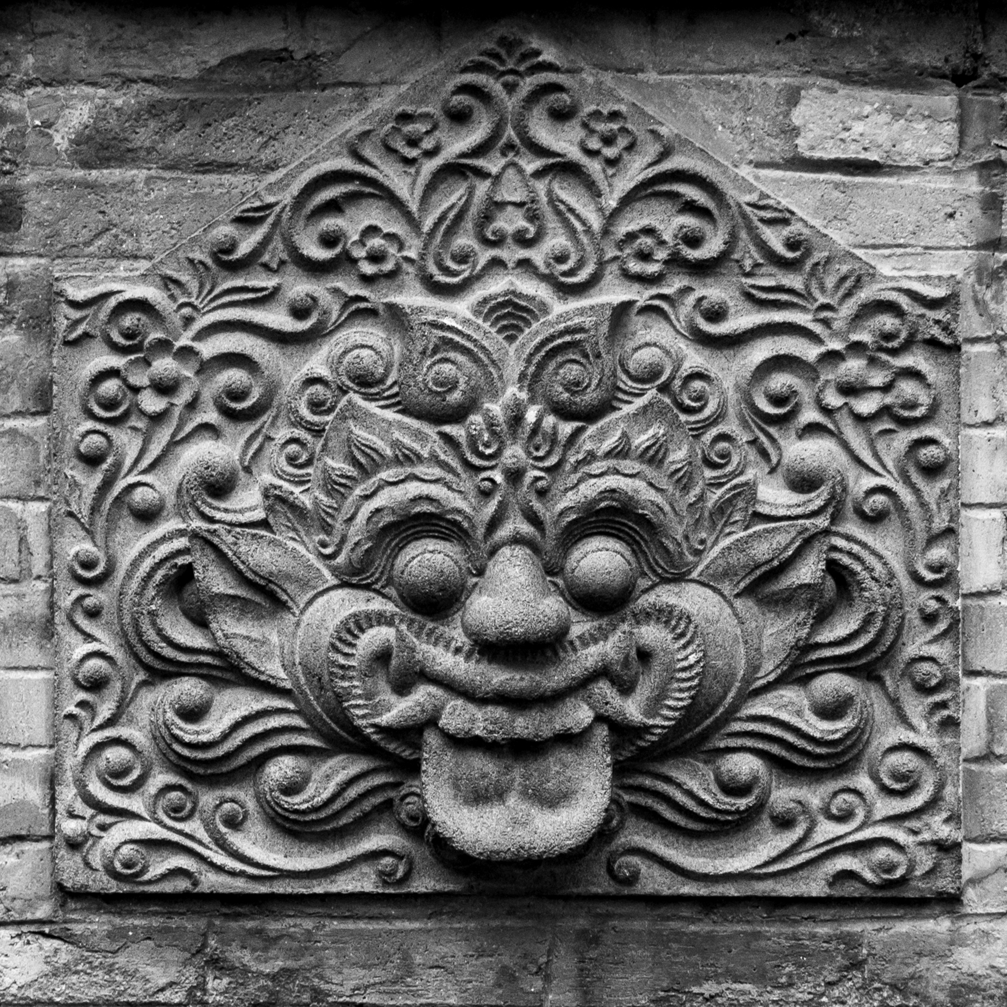 The Kala's face on a gate wall of Masjid Gedhe Mataram Kotagede, Yogyakarta, Indonesia.